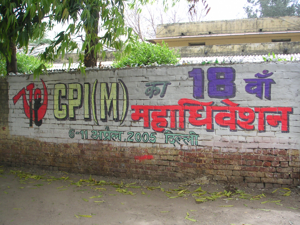 Mural announcing 18th congress of Communist Party of India (Marxist), Delhi. Photo: Soman